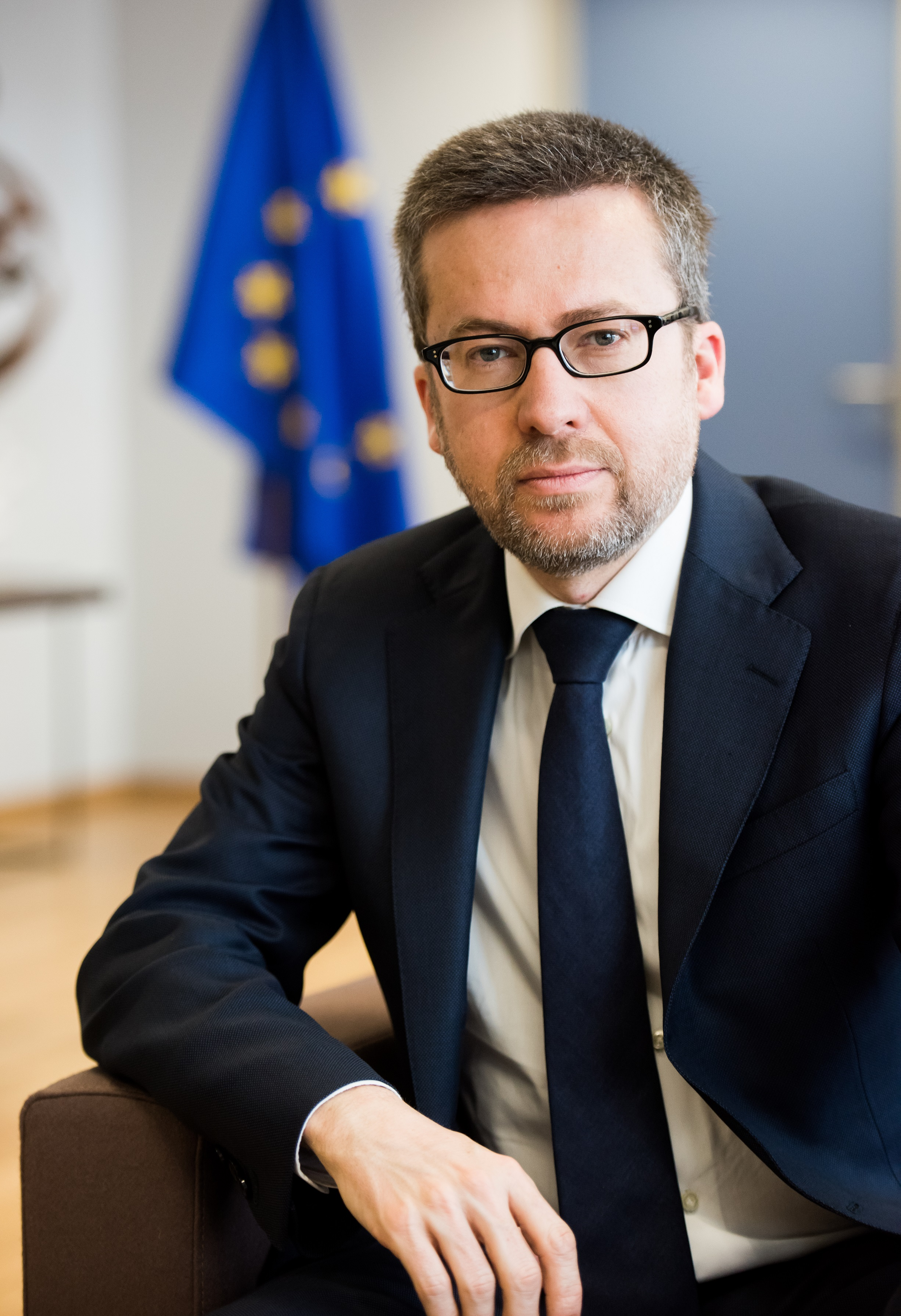 Carlos Moedas, Member of the European Commission in charge of Research, Science and Innovation